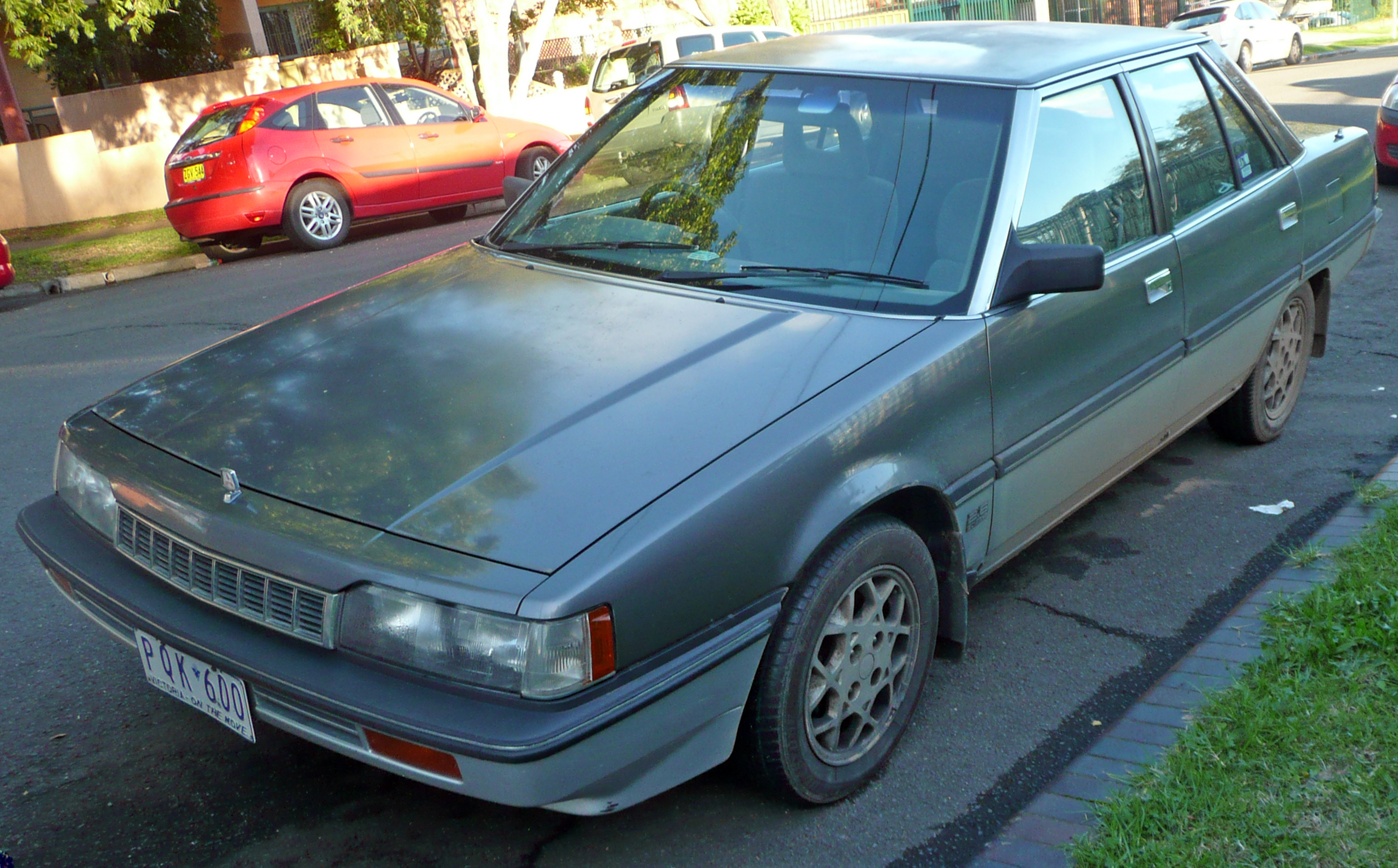 1987 Mitsubishi Magna (TN) Elite sedan. Photographed in Sutherland, New South Wales, Australia. Vehicle registration enquiry results Jurisdiction Victoria Registration PQK600 Chassis code TN2X41UF11001012 Engine code V511V02687 Compliance date 1987-01 Year of manufacture 1987